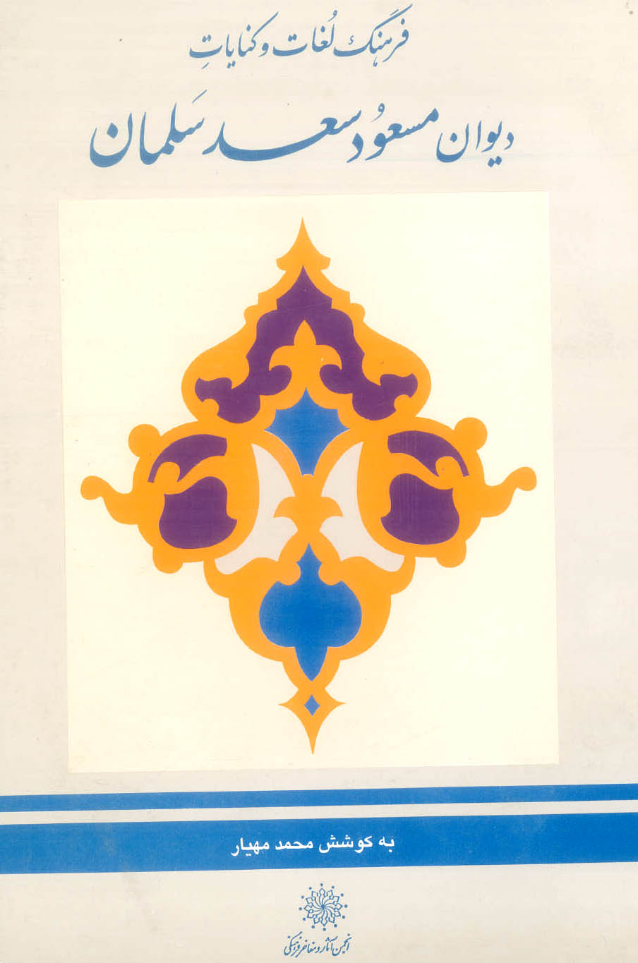 فرهنگ لغات و اصطلاحات دیوان مسعود سعد سلمان